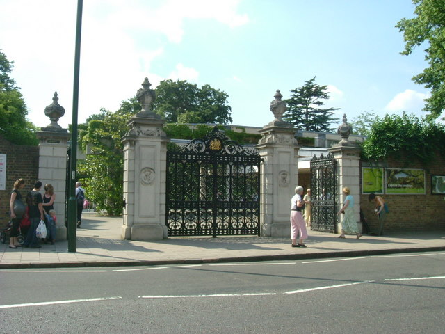 Victoria Gate - Kew Gardens One of the entrances to Kew Gardens.